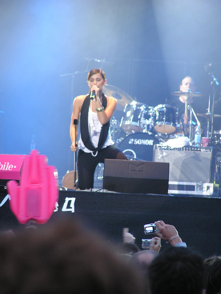 Nelly Furtado at Rock im Park 2006, Nuremberg